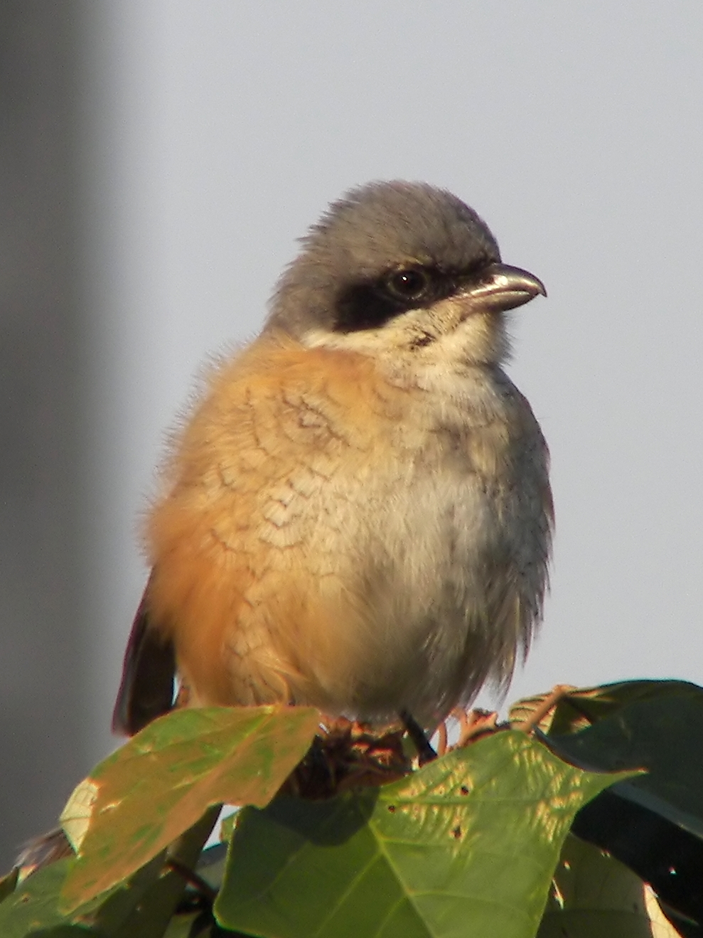 Brown Shrike